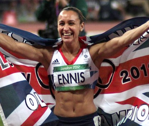 Jessica Ennis with the UK flag after winning gold in the heptathlon at the 2012 Summer Olympics